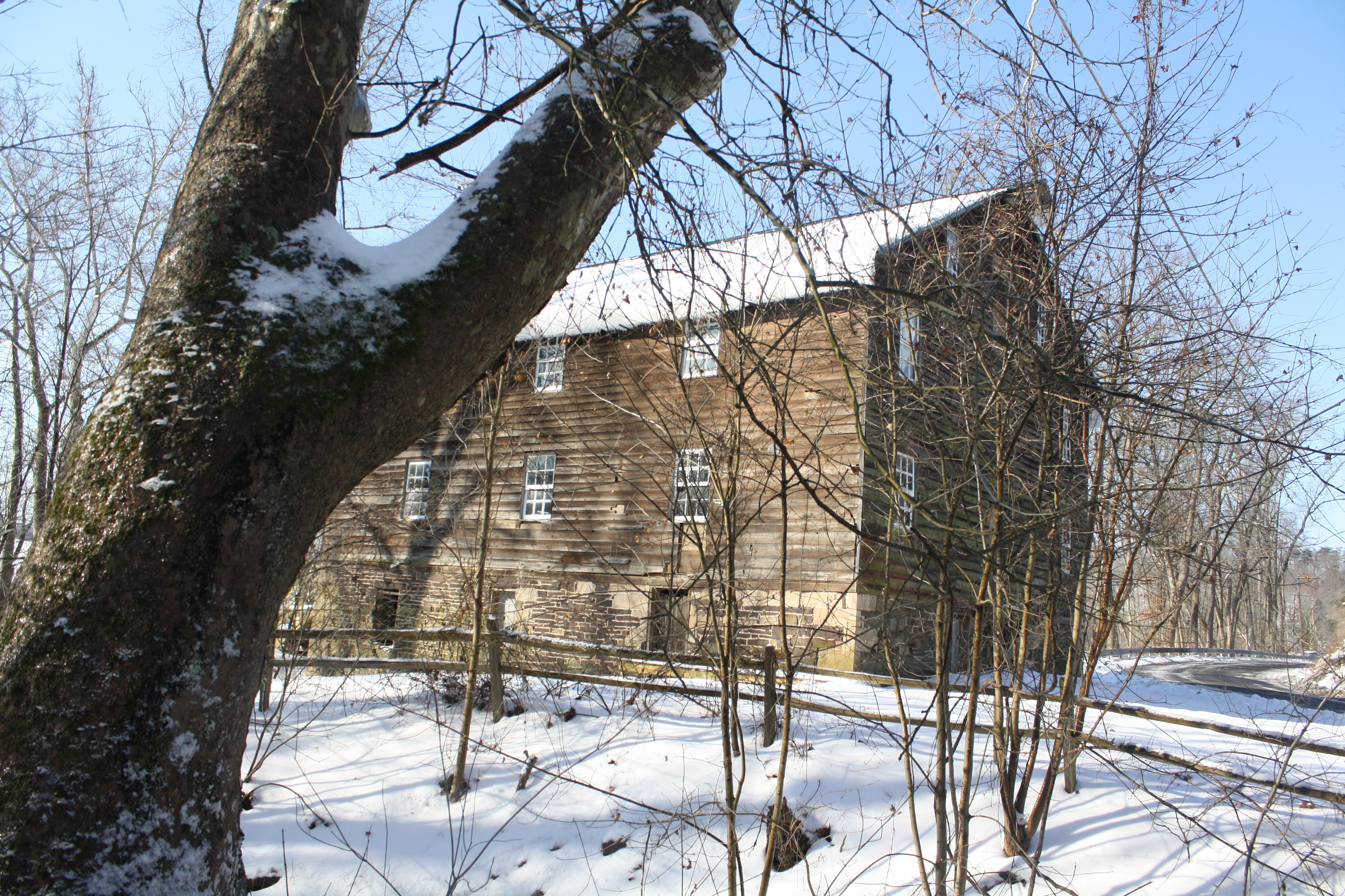 Dellville.